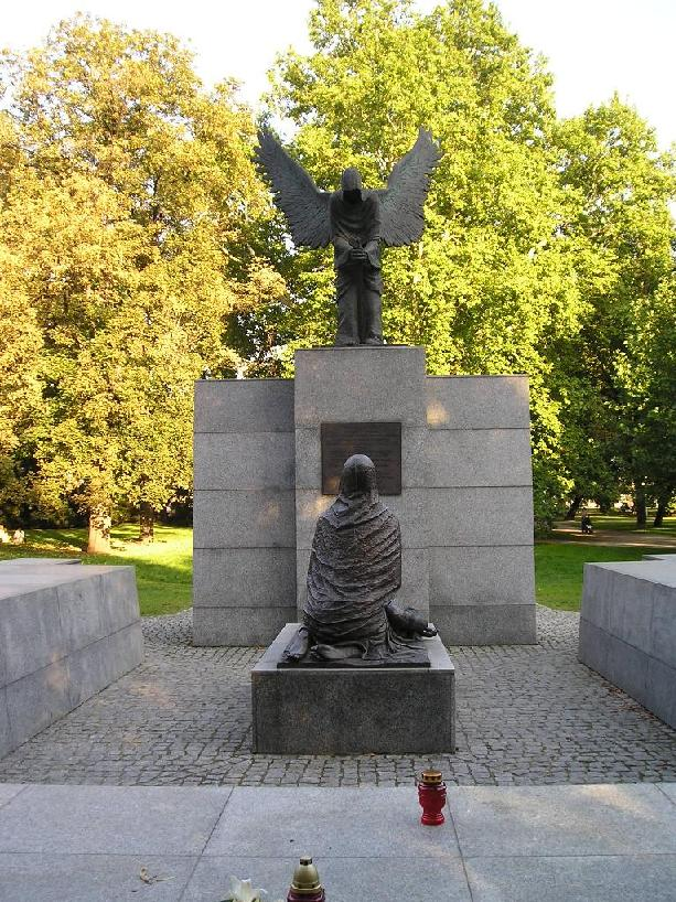 Katyn Massacre Monument in Wrocław, Poland